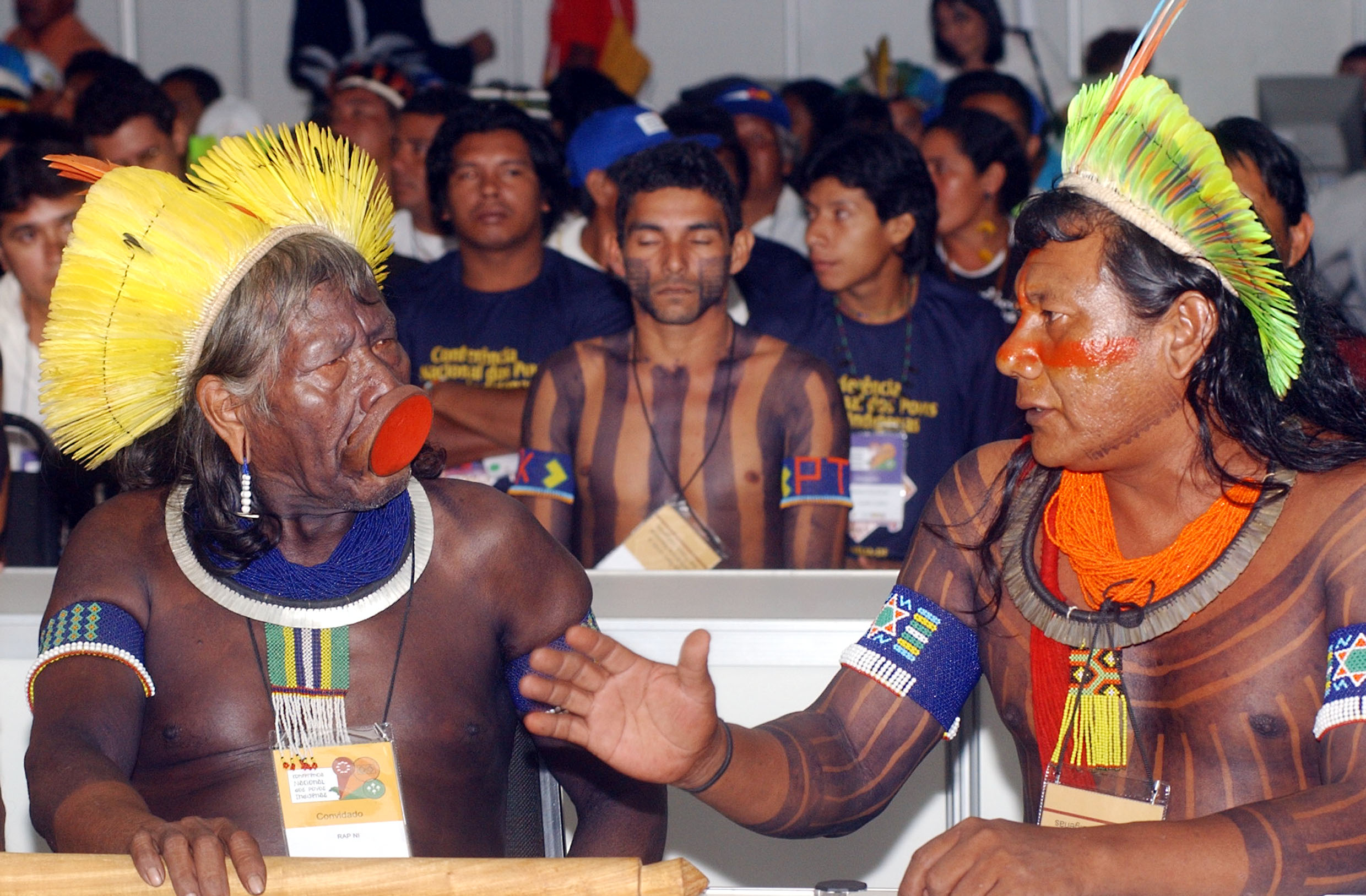 Raoni Metuktire at the opening of the National Indigenous Conference in Brasília, Brazil.